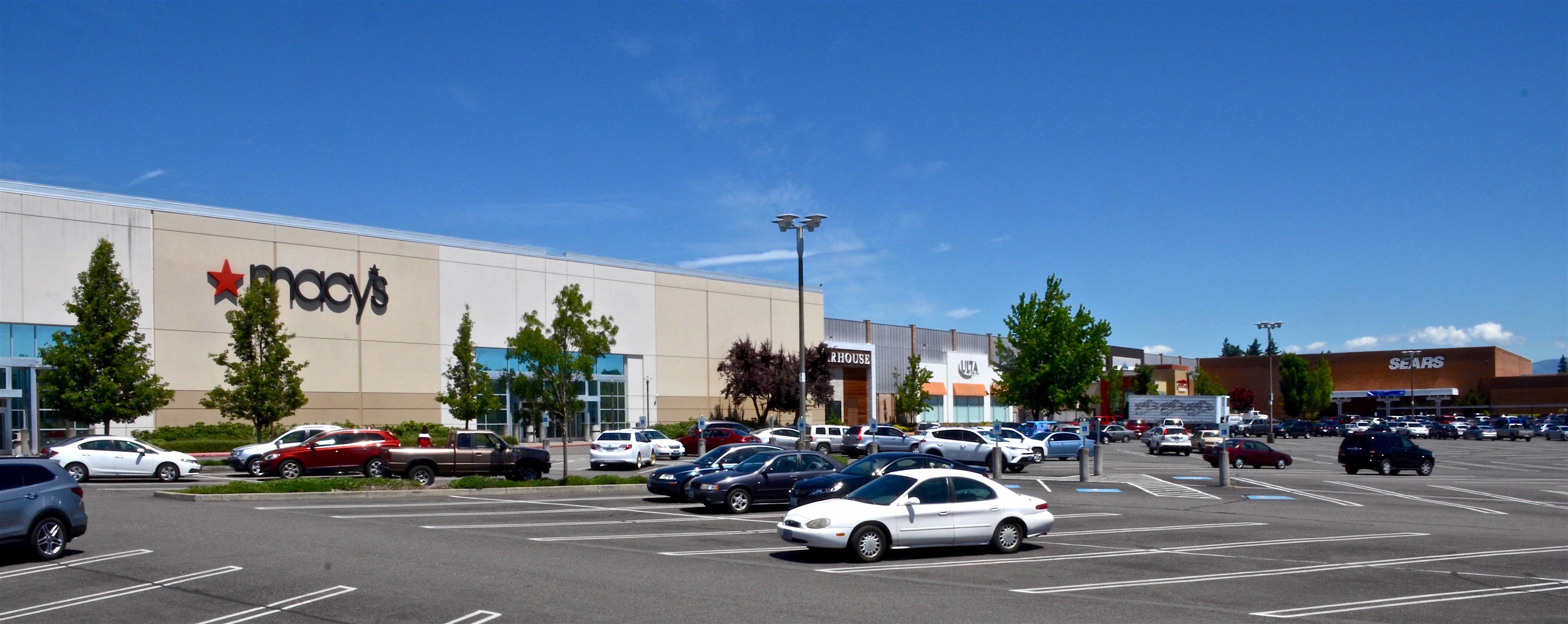 The exterior of Vancouver Mall (in Vancouver, Washington) viewed from the southwest.